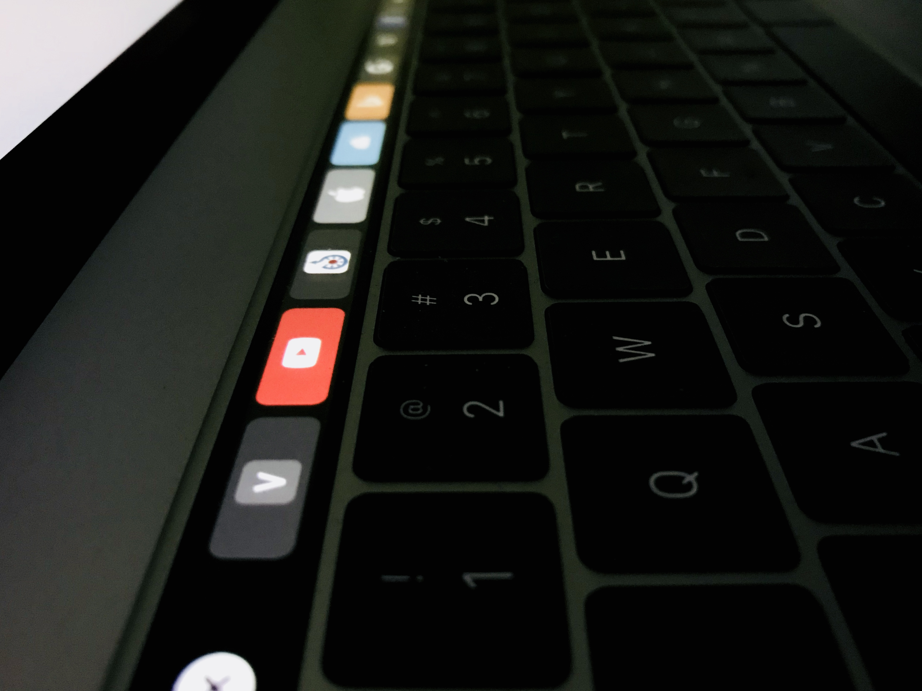 Touch bar of 15" MacBook pro with 512GB SSD